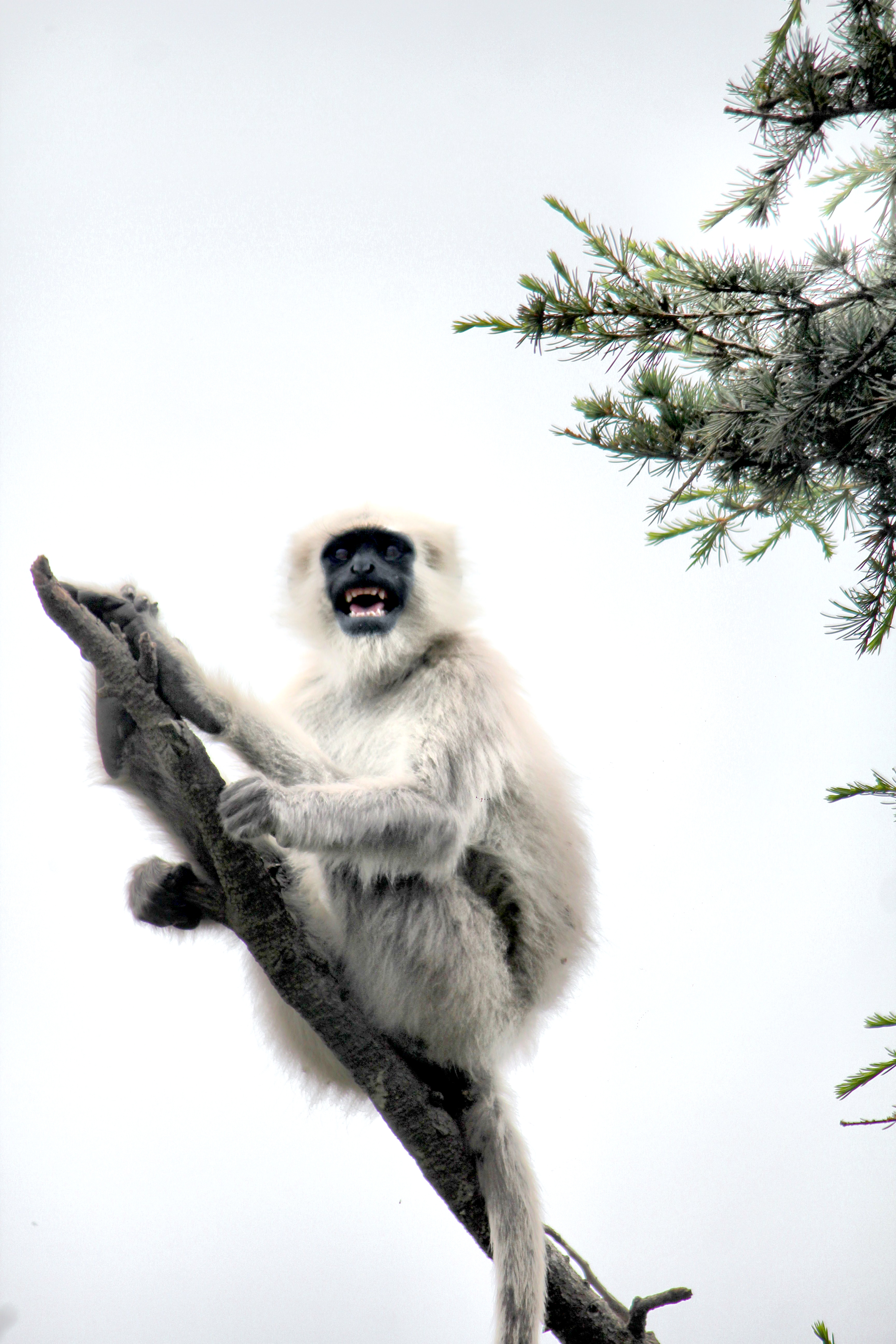 Gray langur at Shimla,Himachal Pradesh